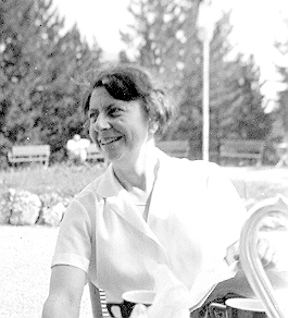 Erna Hamburger in Leysin, Switzerland, in front of the Grand-Hotel